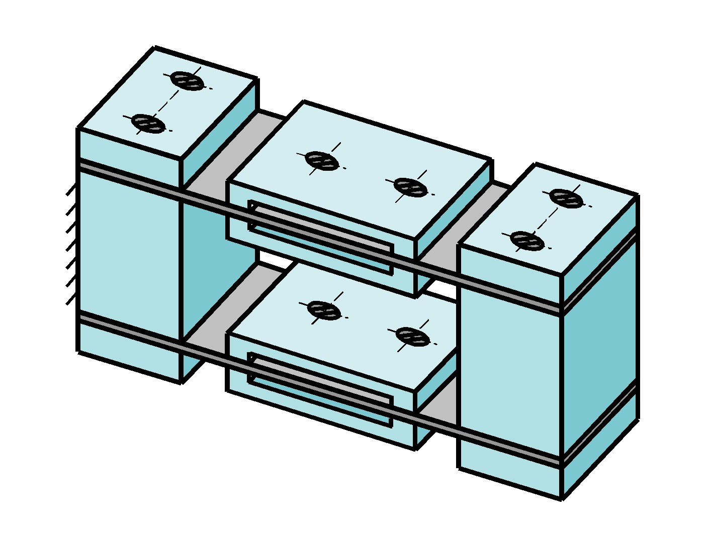 parallel linear spring guide